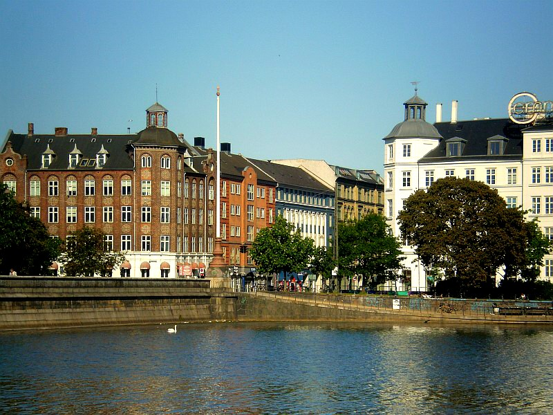 Again Sortedams Sø, with Dronning Louises Bro on the left and looking a bit into Nørrebrogade.